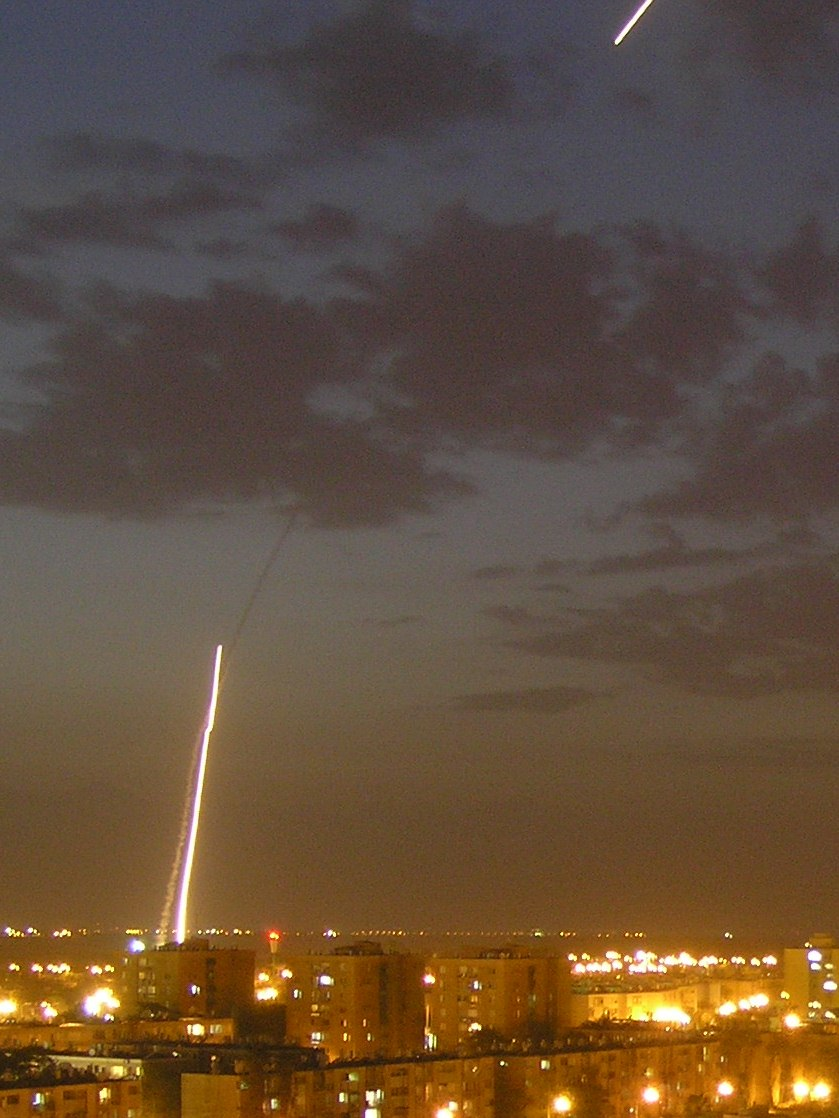 Iron Dome during "Operation Pillar of Cloud"